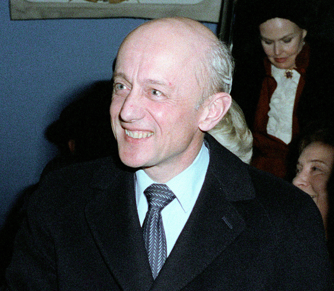 Kåre Willoch (born October 3, 1928) is a Norwegian politician from the Conservative Party. He was Prime Minister of Norway from 1981 to 1986